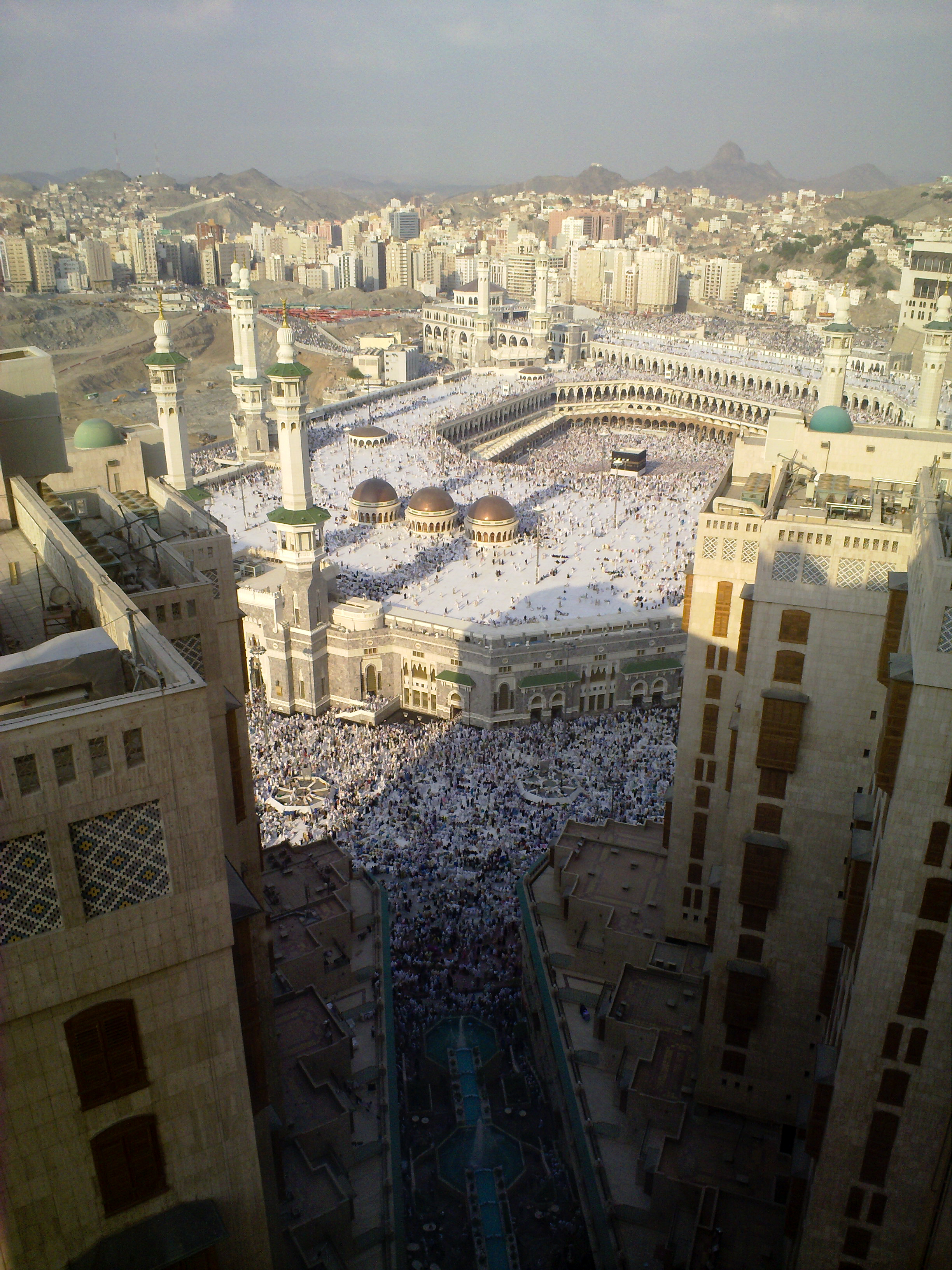 Worshippers throng the streets and areas outside the Haram, or Grand mosque, in Mecca during afternoon prayer. Photo by Omar Chatriwala